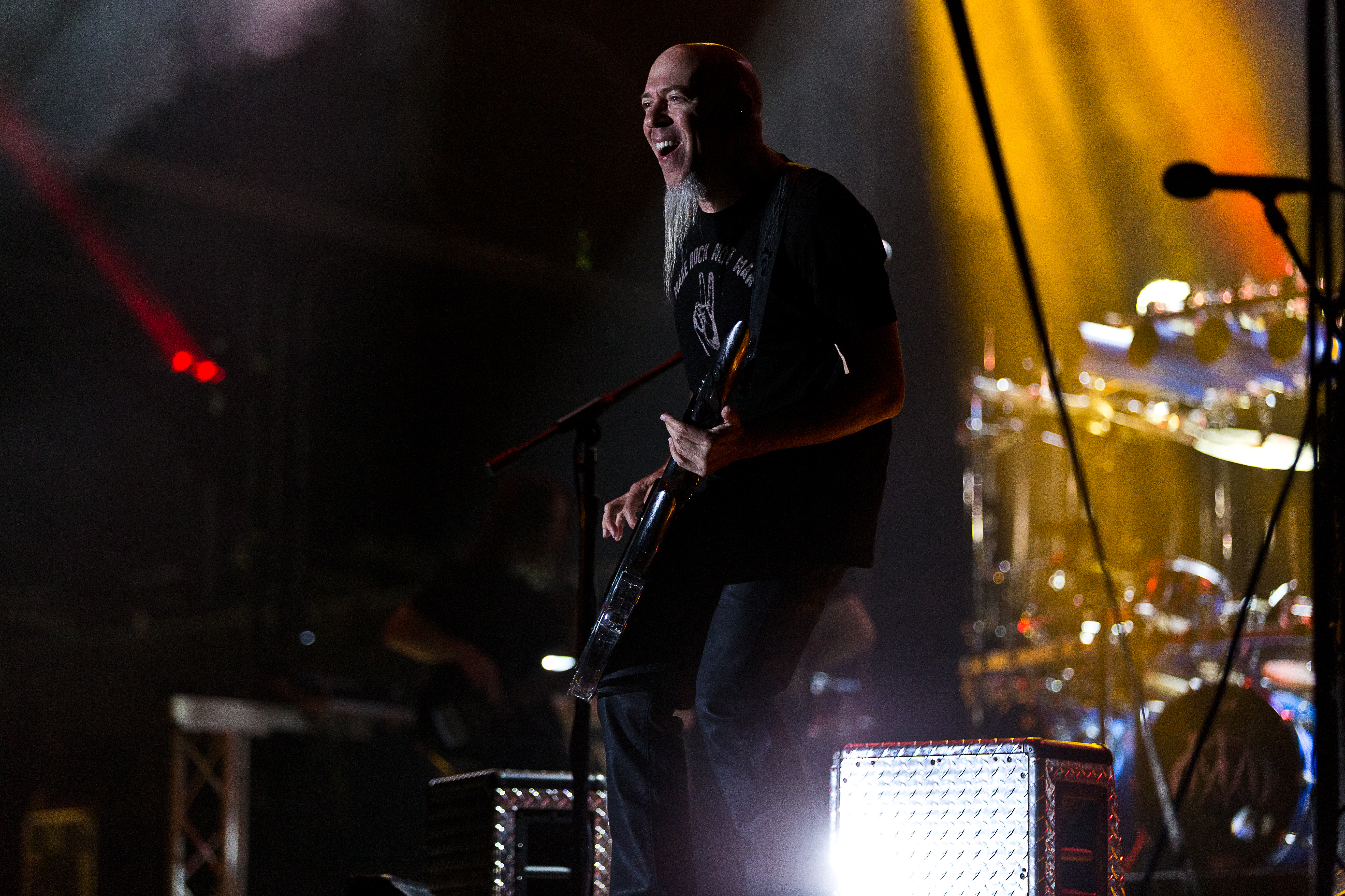 The American progressive metal band Dream Theater at the Rockharz Open Air 2015 in Ballenstedt/Germany.